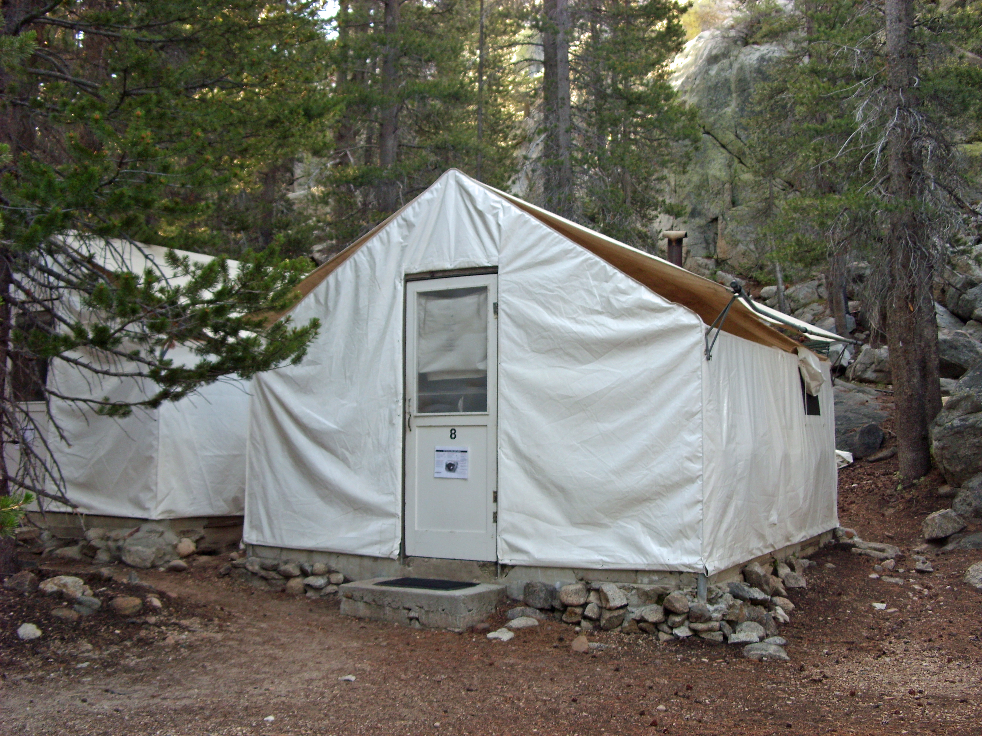 Tent cabin at Glen Aulin High Sierra Camp, Sierra Nevada, California